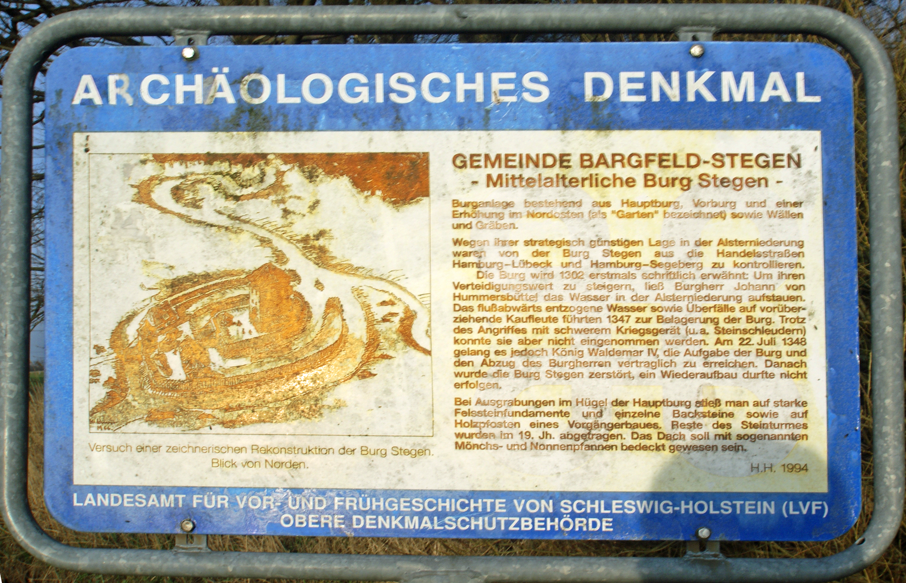 Bargfeld-Stegen, Germany: Plaque at the entrance of Burg Stegen